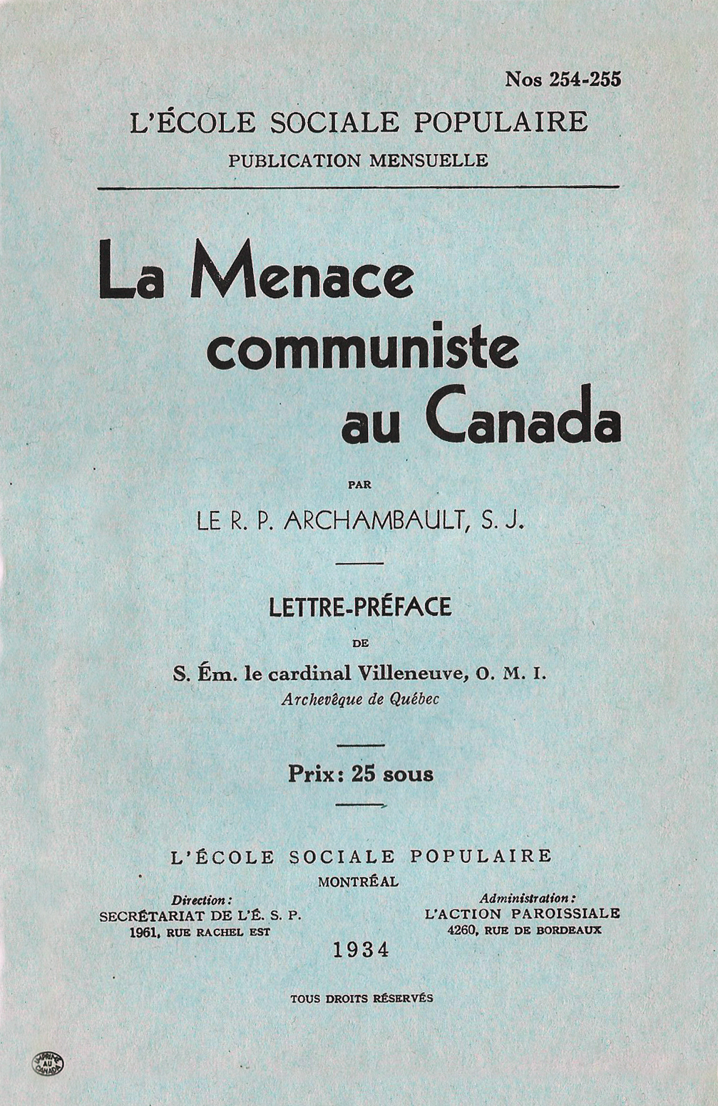 Cover of La Menace communiste au Canada, anticommunist propaganda published by l'École sociale populaire